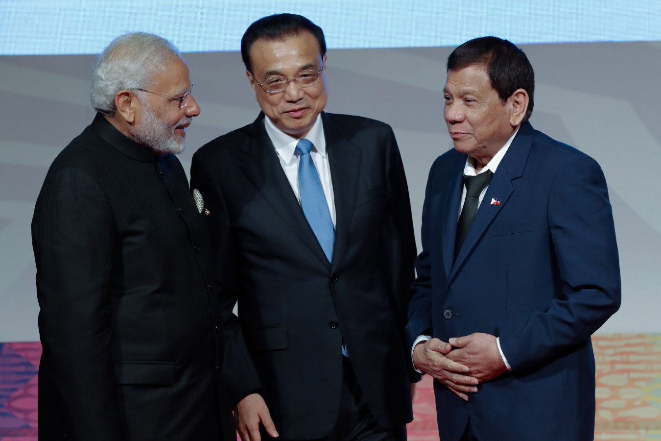 President Rodrigo Roa Duterte chats with Indian Prime Minister Narendra Modi and People's Republic of China Li Keqiang prior to the start of the 12th East Asia Summit at the Philippine International Convention Center on November 14, 2017. REY BANIQUET/PRESIDENTIAL PHOTO